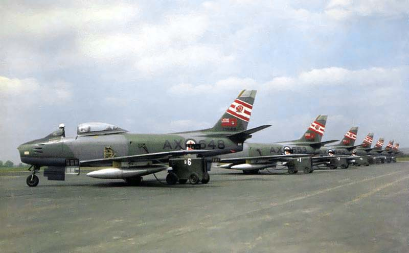 Sabres of 421 Squadron Royal Canadian Air Force at RCAF Station Grostenquin, France.